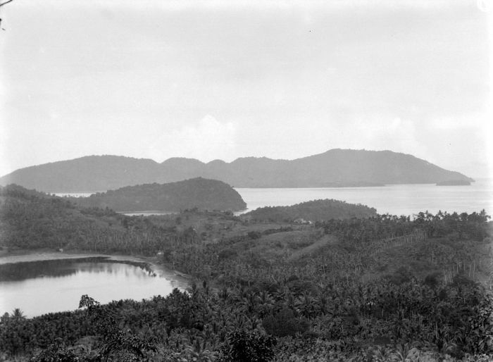 View over Lake Aneuklaot and Sabang Bay